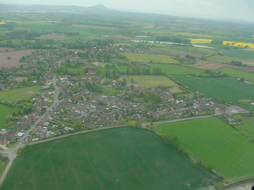 I took this photograph. Edgmond from helicopter, 6 May 2006. The Wrekin on the horizon. I visited a falconry fair at Chetwynd Park nearby. There, helicopter rides were offered. I went on one, and I got the seat beside the pilot. I took this photo (and others) while I was in the air. I took this image and I am its author. Anthony Appleyard (talk) 22:23, 29 November 2011 (UTC)